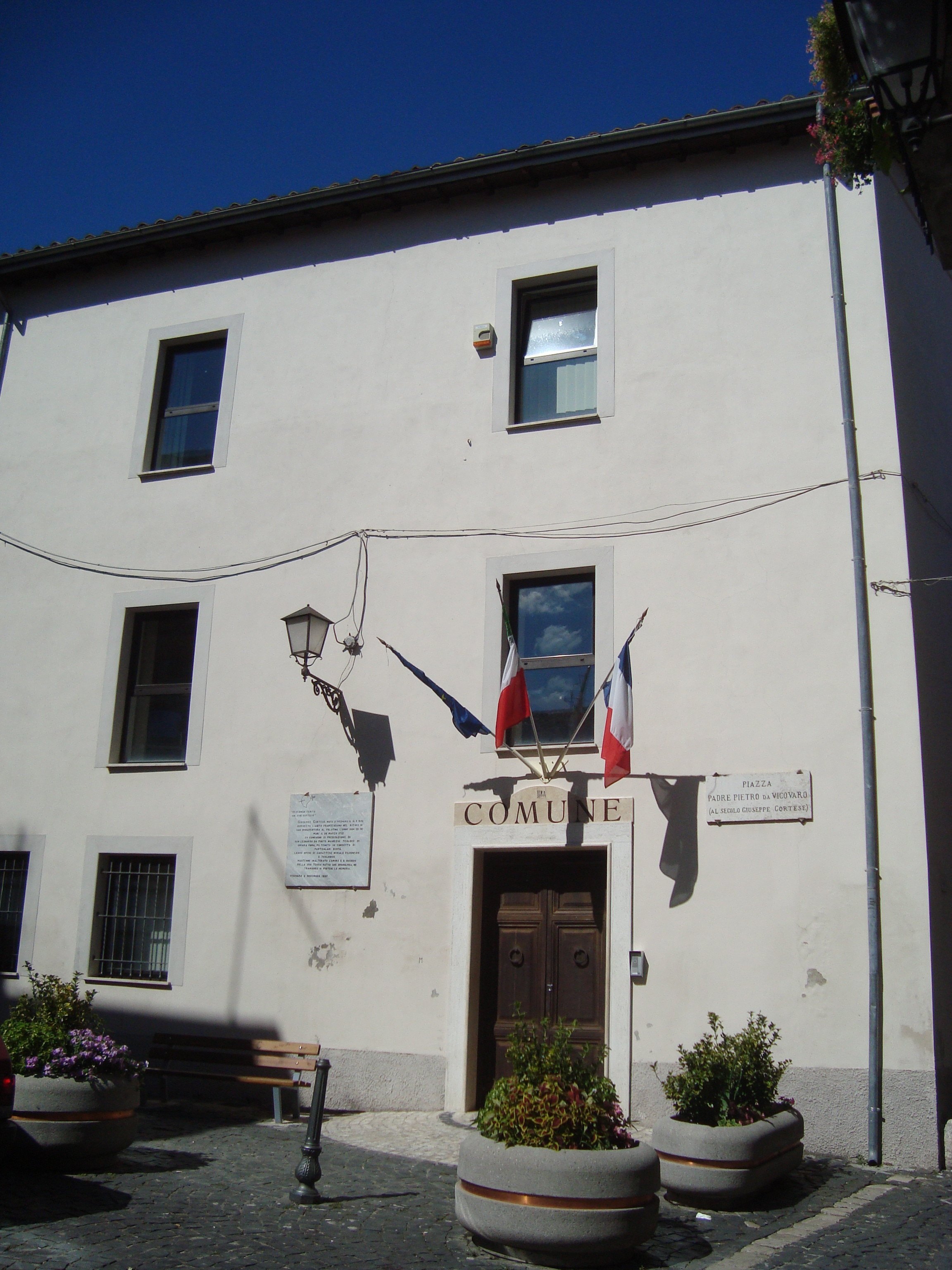 City hall in Vicovaro